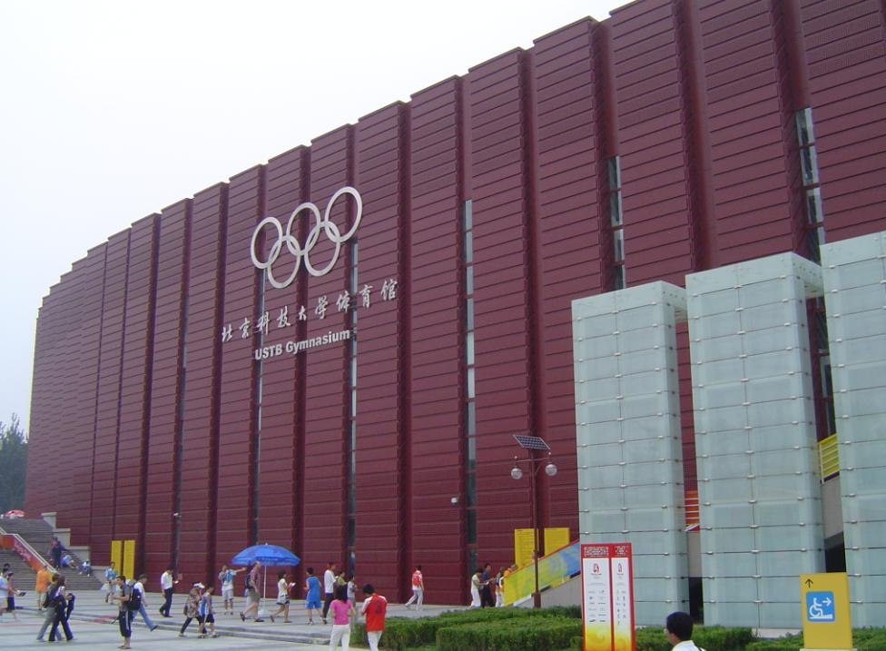 The indoor arena from the Beijing Science and Technology University Gymnasium.